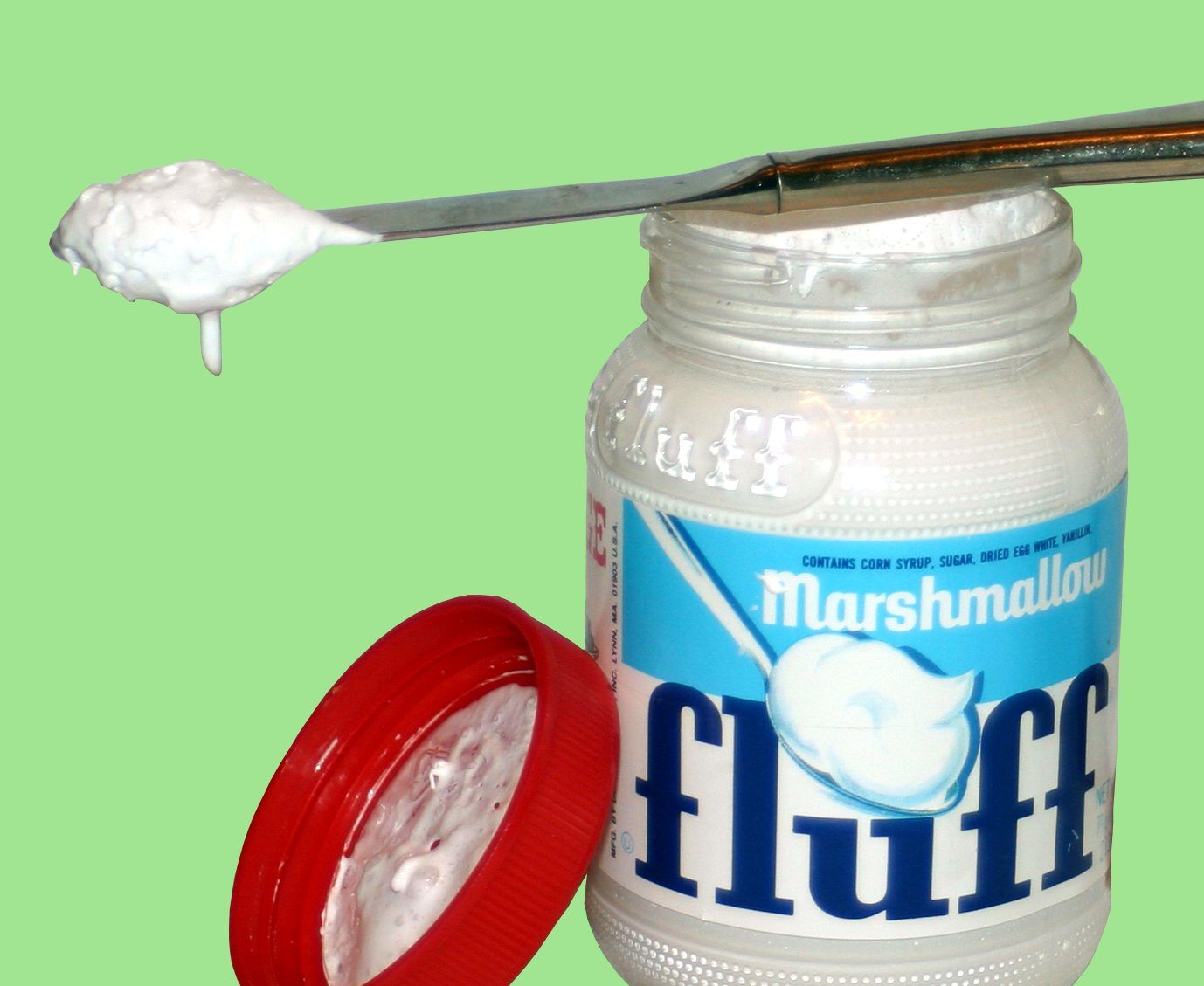 Marshmallow fluff